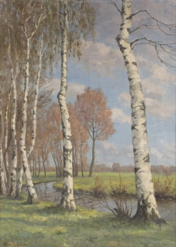 Birch Trees in Landscape, oil on canvas, signed "Moritz-Lübben" in the lower left corner, 28 3/4 x 20 1/2 in.